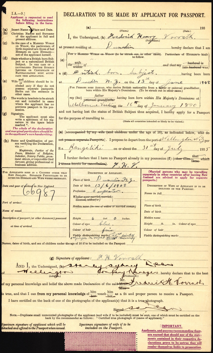 Archives New Zealand Reference: ACGO 8333 IA1 1350 / 15/11/59182